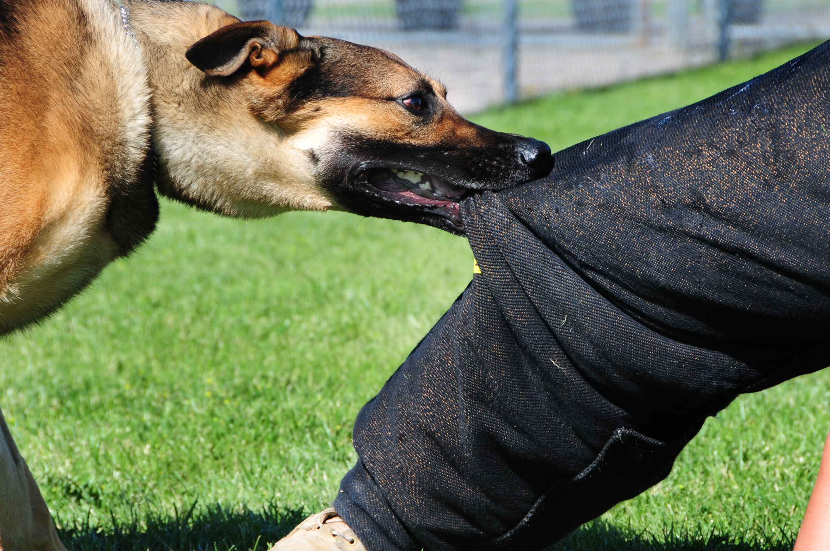 ELLSWORTH AIR FORCE BASE, S.D. -- Bak, 28th Security Forces Squadron military working dog, bites down on Staff Sgt. Kevin Nelson, 28 SFS K-9 unit trainer, during a training session, June 24. Sergeant Nelson wears a “bite suit” to protect his legs from serious injury during the training.